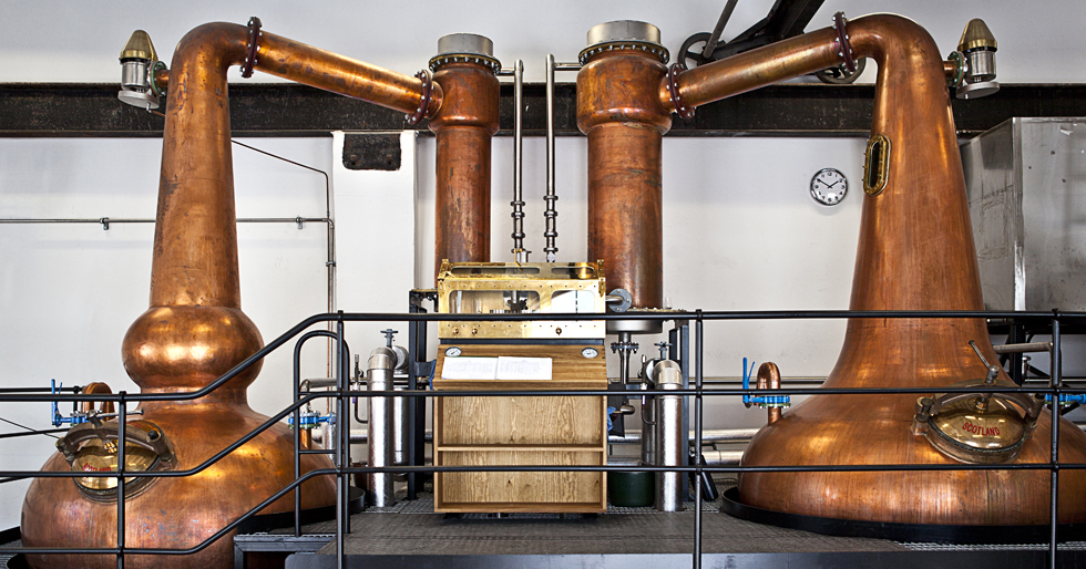 The stills at Box Distillery